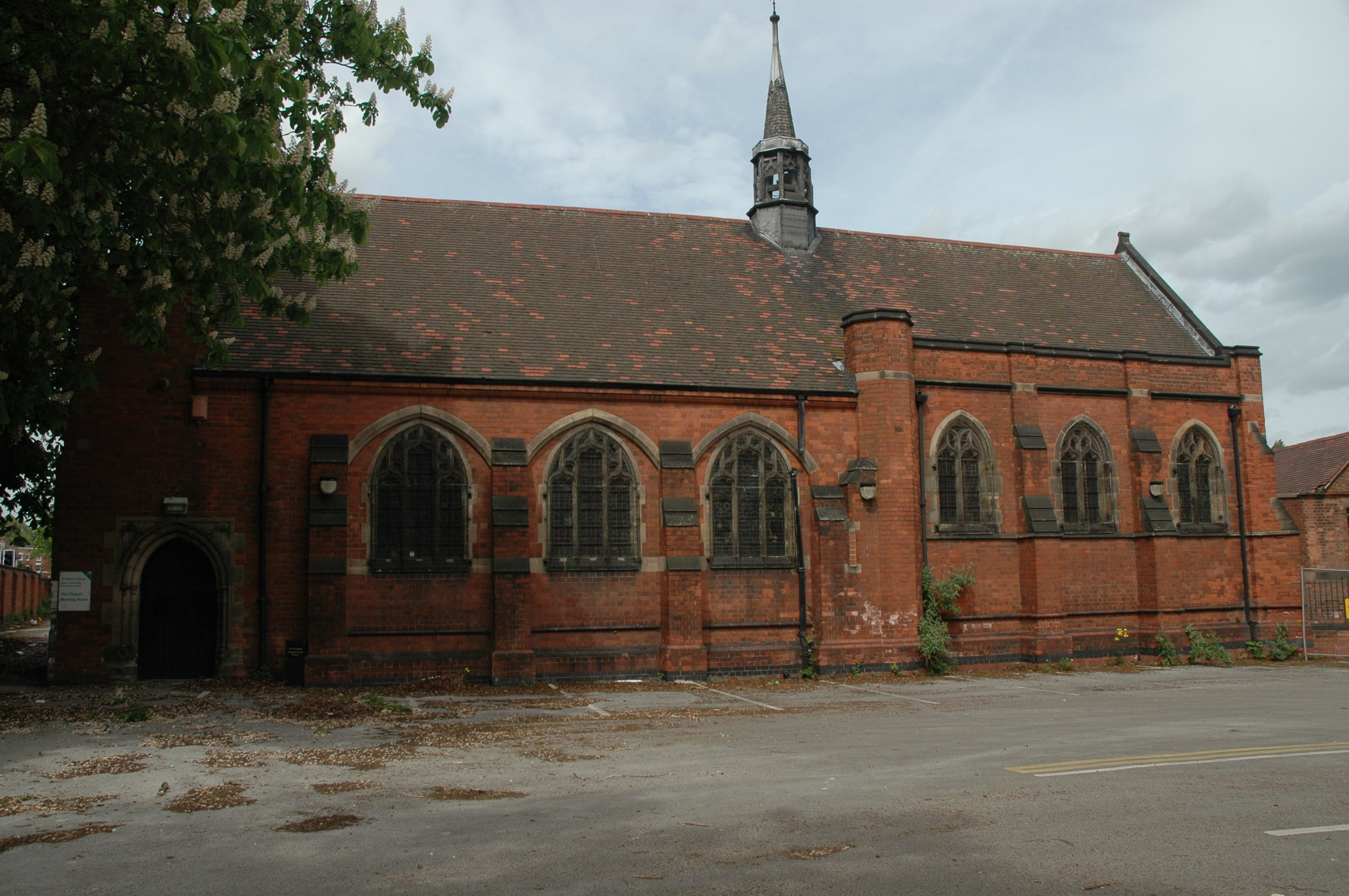 Chapel of the former Derby School at St Helen's House, King Street, Derby